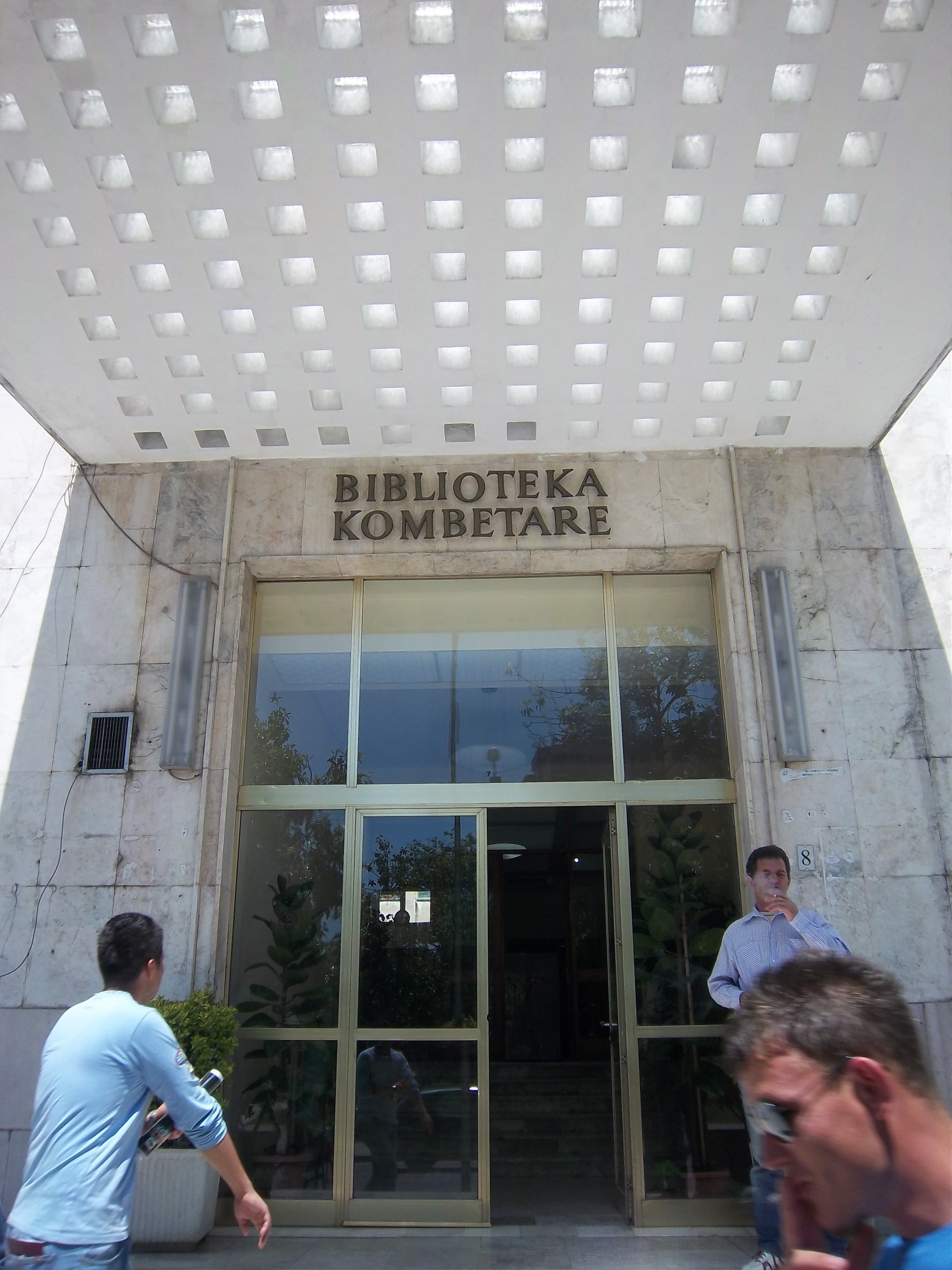 This picture was taken for the project "Tirana, let's get up!", implemented during the Balkans let's get up! Spring School in 2013.